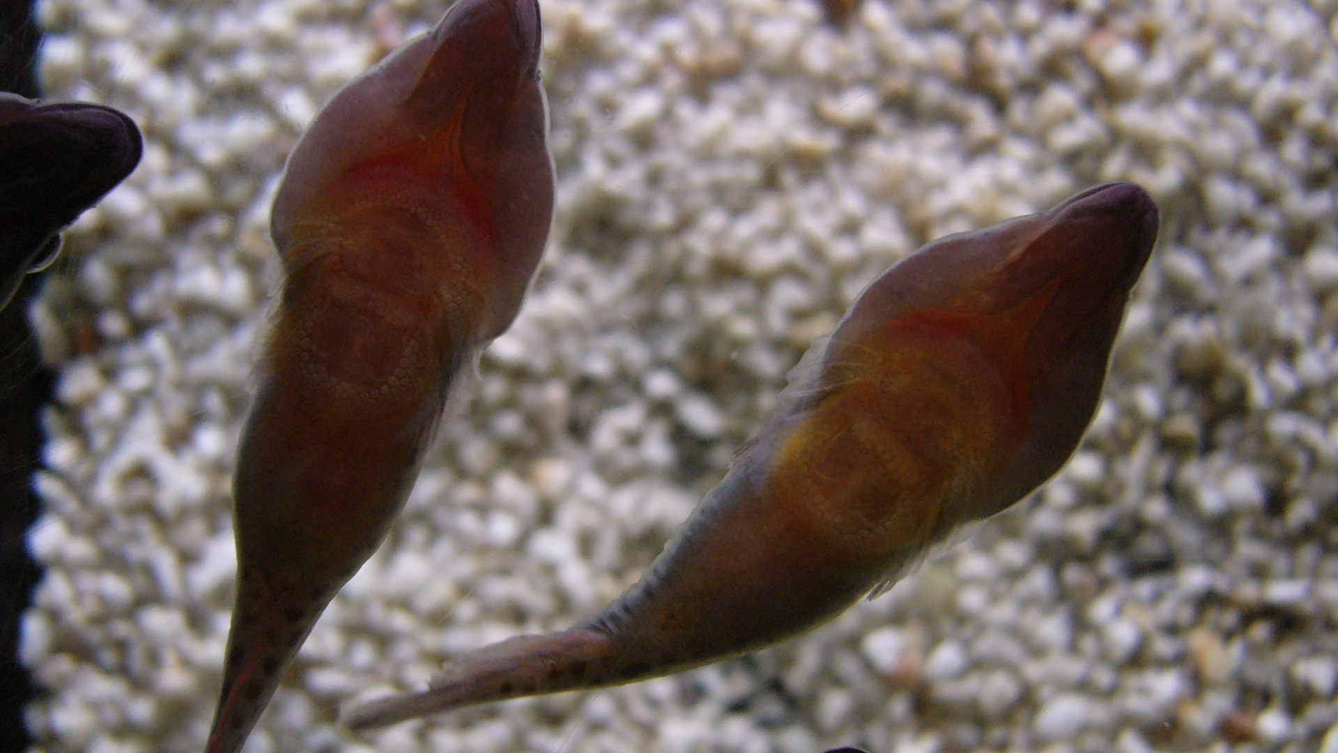 Lepadogaster lepadogaster in Sala Maremagnum of Aquarium Finisterrae (House of the Fishes), in Corunna, Galicia, Spain.